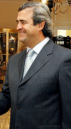 Sen. Jorge Larrañaga